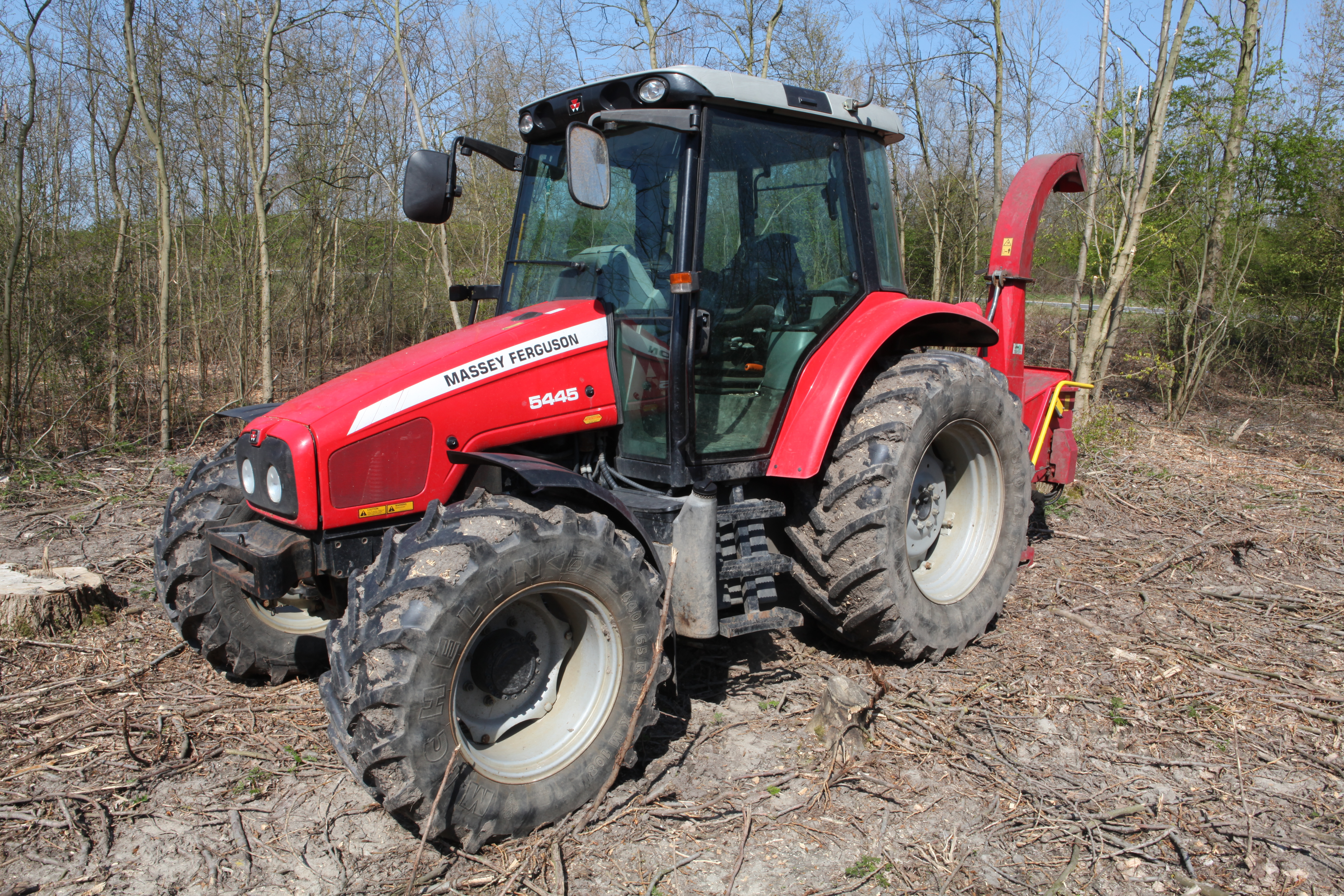 Massey Ferguson 5445 tractor